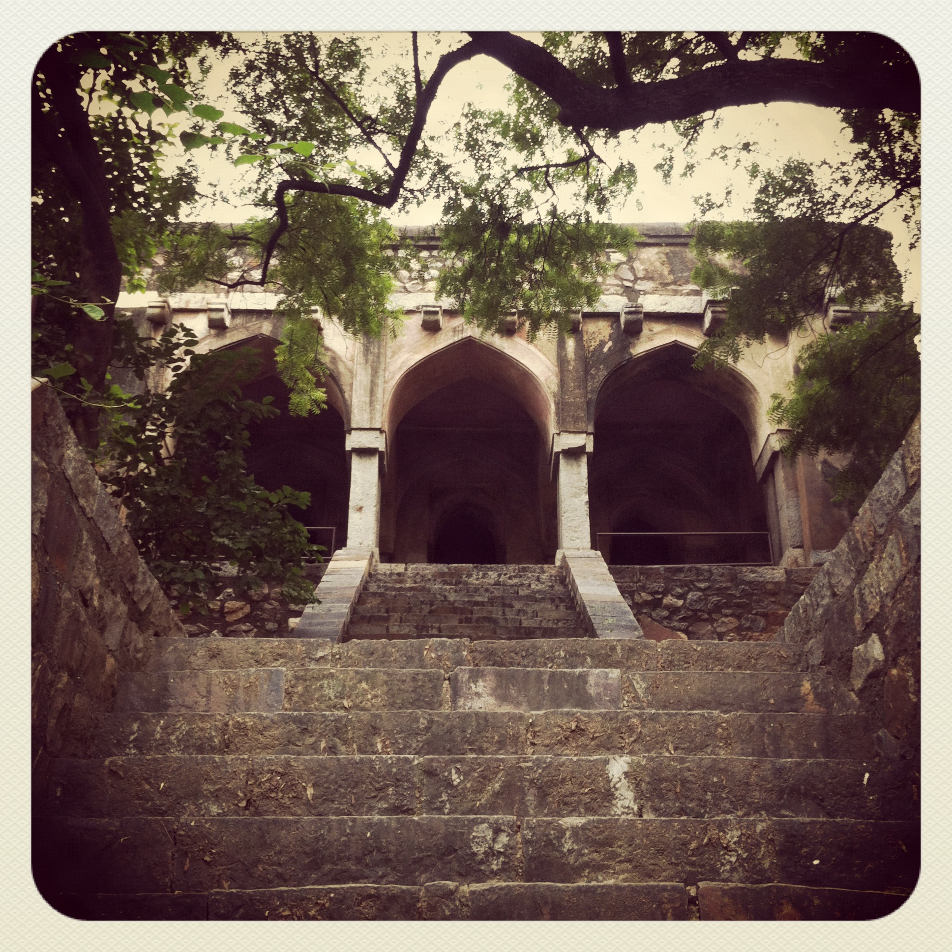 Sikargah Kushak-II -327 , built by Feroze Shah Tughlaq between 1321 - 1414 A.D.